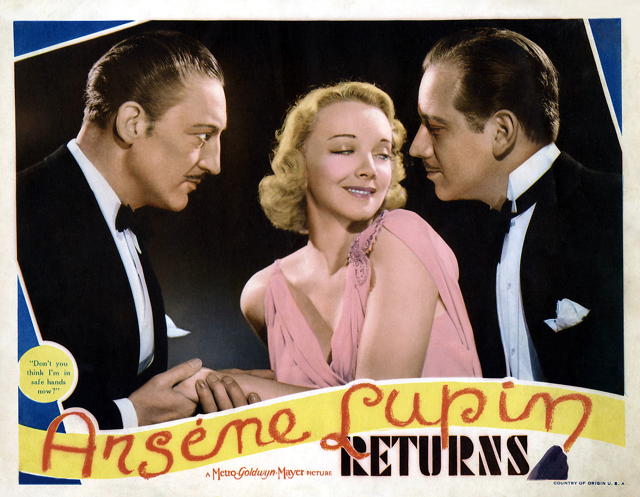 Poster for the 1938 film Arsene Lupin Returns